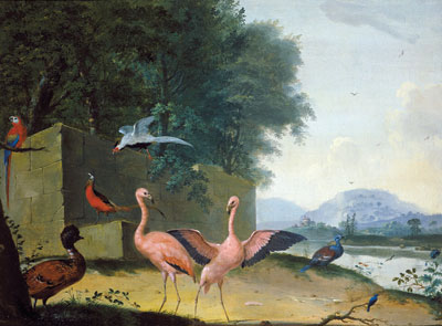 An Assembly of Exotic Birds, including Flamingoes, Parrots and a Lady Amherst Pheasant.